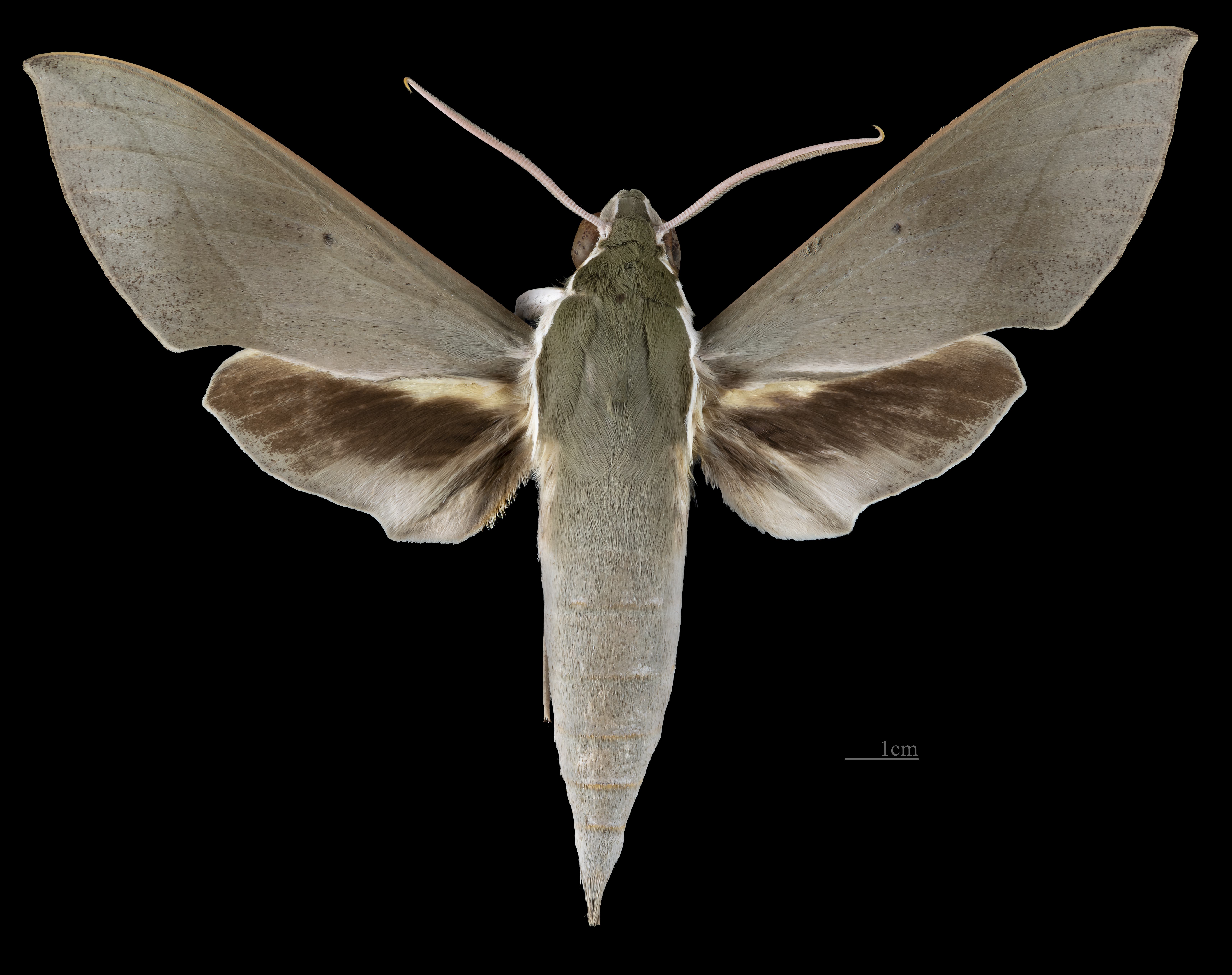 Theretra indistincta - Dorsal side Collection of the Mathematician Laurent Schwartz